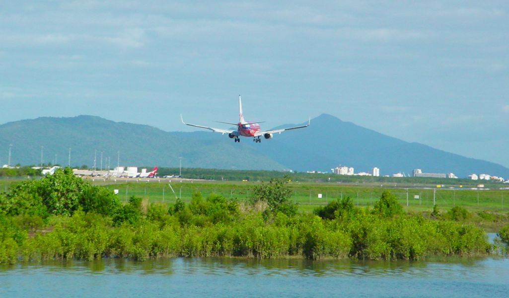 A plane landing to Cairns airport. Taken from behind Barron river.